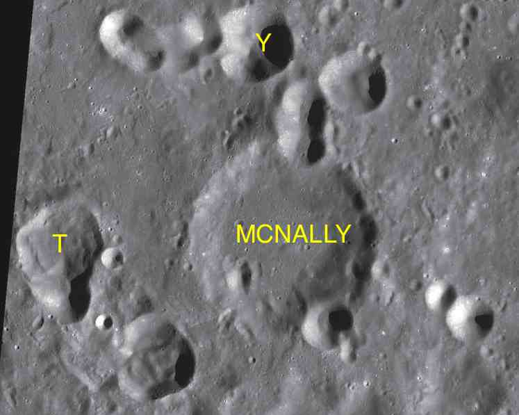 Part of the chart LAC-53 used for the presentation